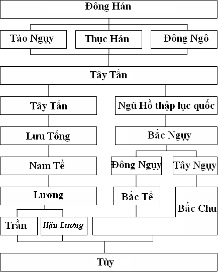 Wei Jin Southern and Northern Dynasties